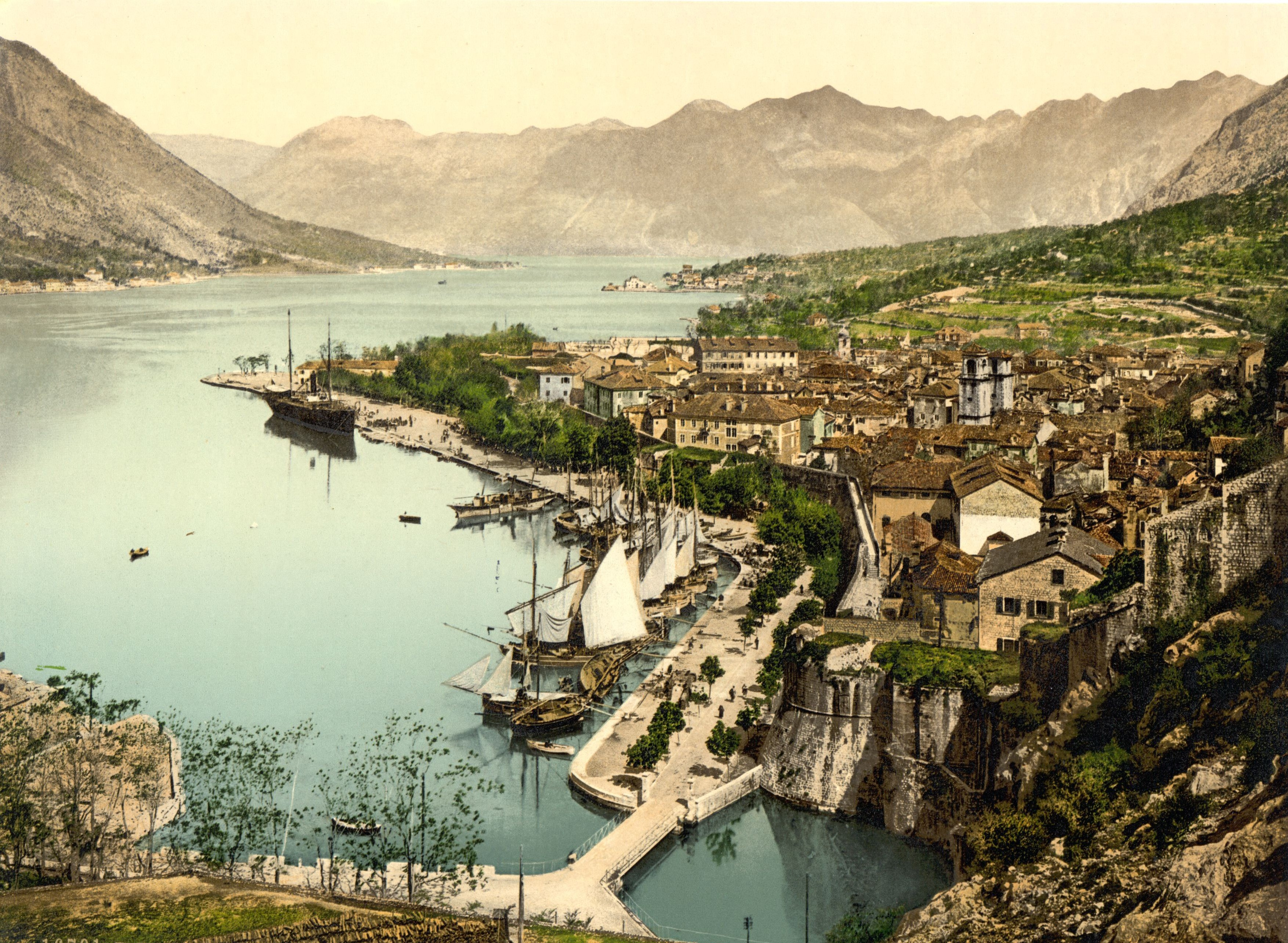 Cattaro, general view, Dalmatia, Austro-Hungary, early 20th century